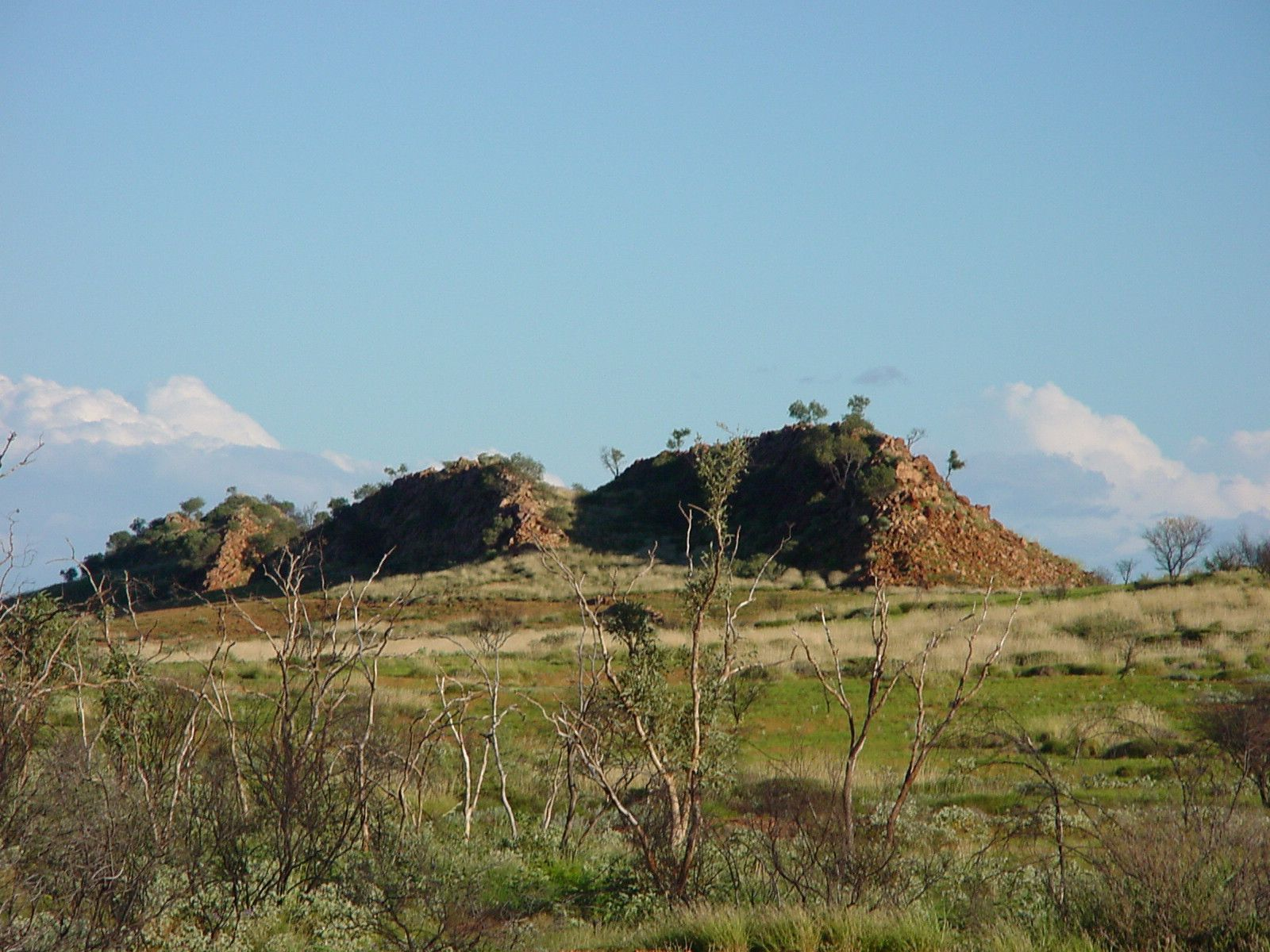 Image title: Pyramids ridge near Nanutarra Image from Public domain images website